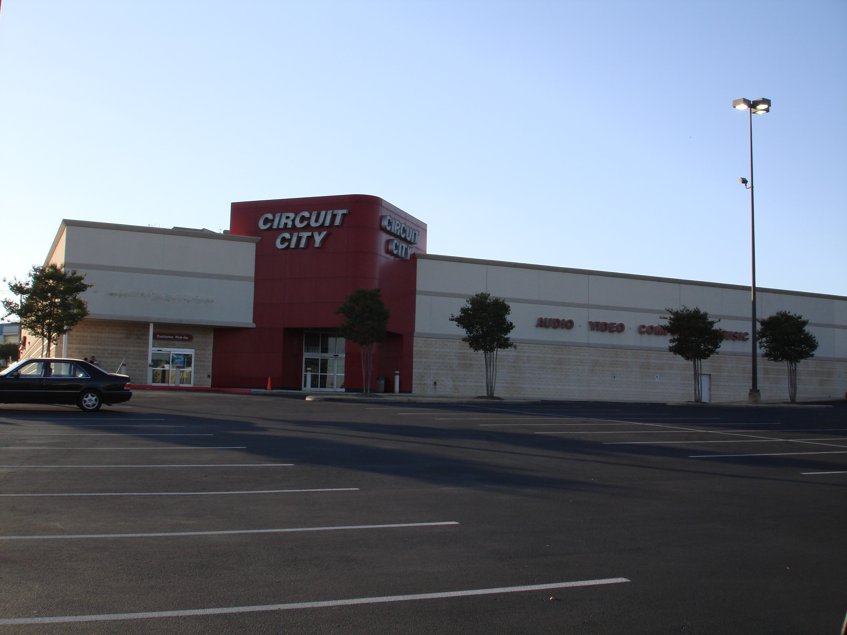 Circuit City Superstore San Antonio, TX